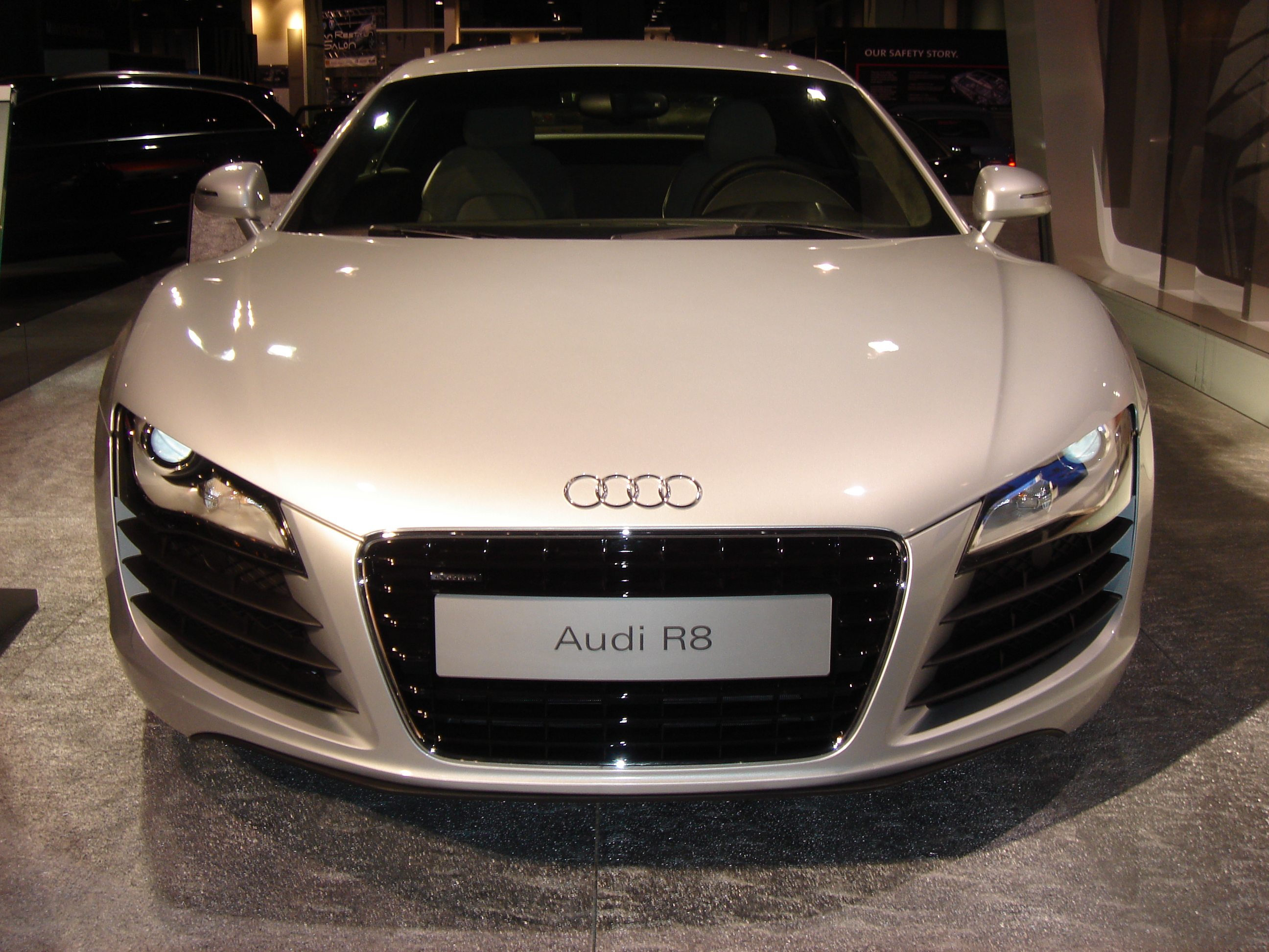 Taken at the Washington Auto Show, Jan 2007. -Taco325i 16:08, 31 January 2007 (UTC)